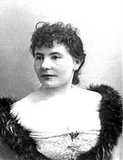 Portrait of Blanche Deschamps-Jehin (1857 - 1923)